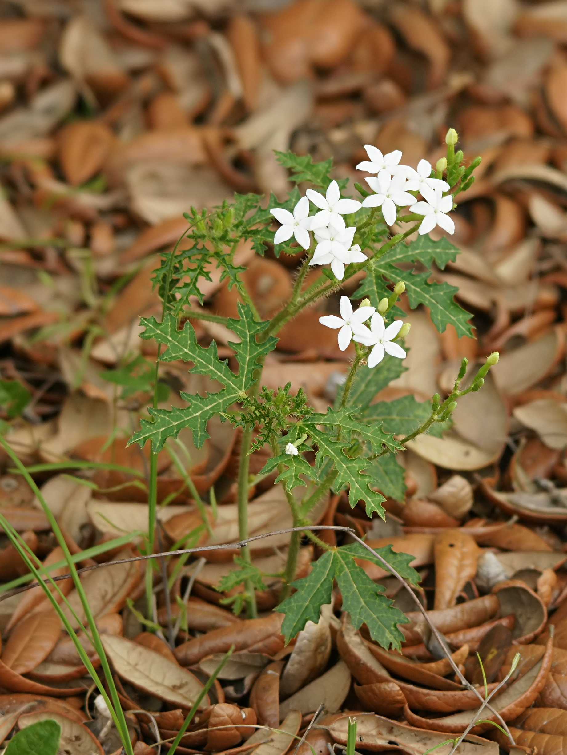 Spurge nettle at Lake Louisa State Park in Lake County, Florida, U.S.A.